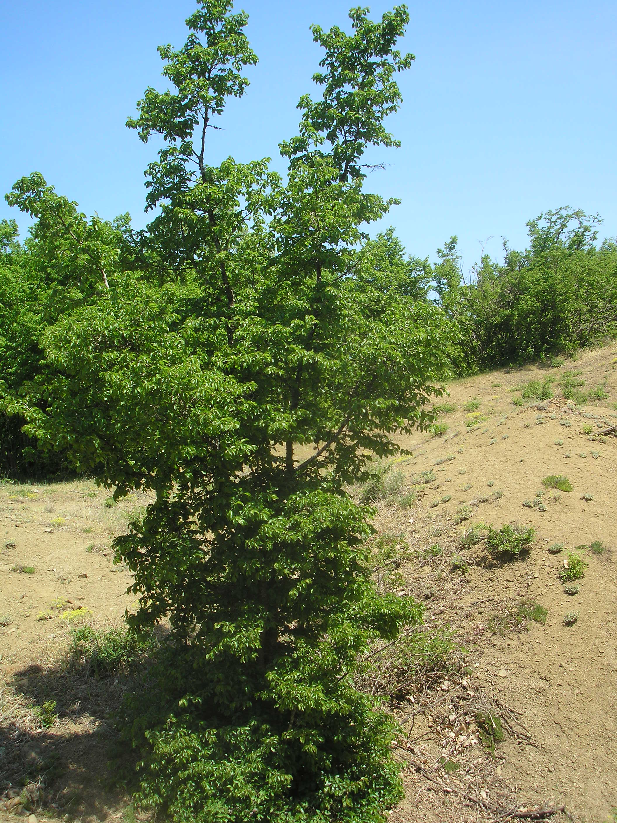 Carpinus orientalis in the Crimea